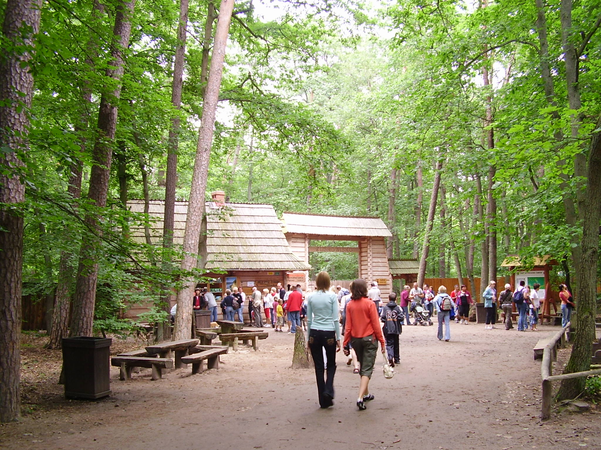 Żubrowisko in Woliński National Park next to Międzyzdroje (Poland)